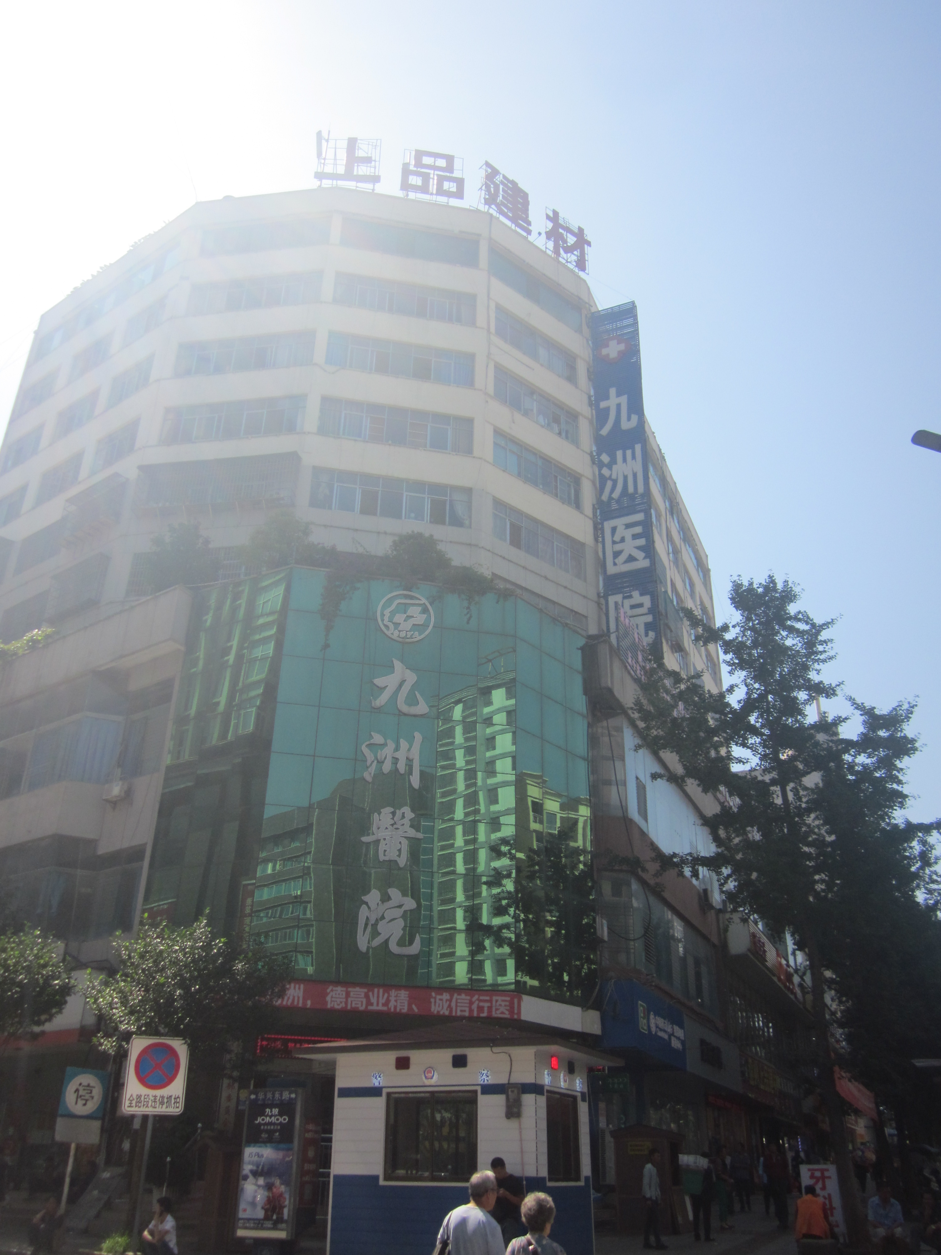 The Jiuzhou Hospital in downtown Panzhou, Guizhou, China.